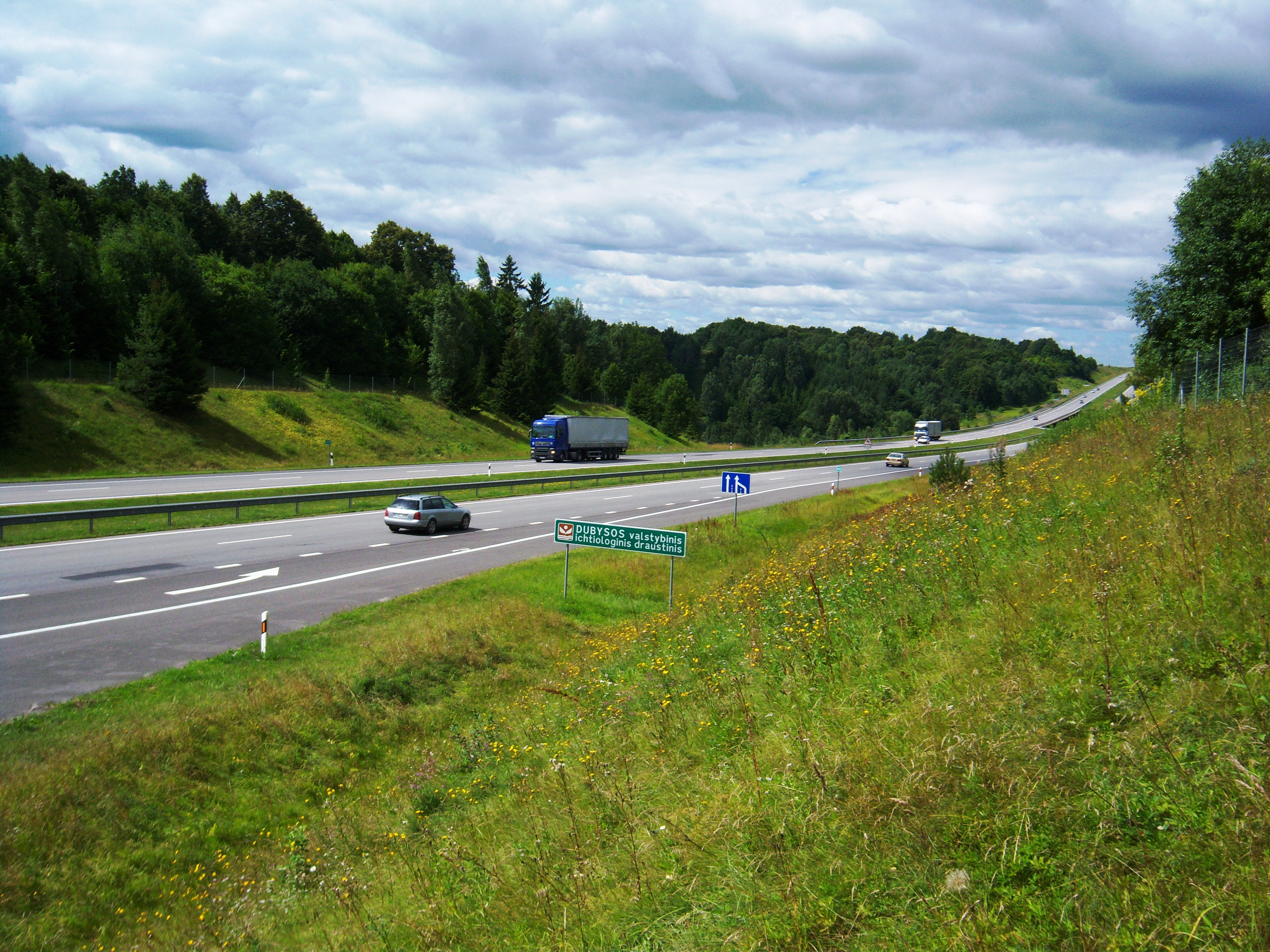 Dubysa Ichthyological Reserve, highway A1, Kaunas District, Lithuania